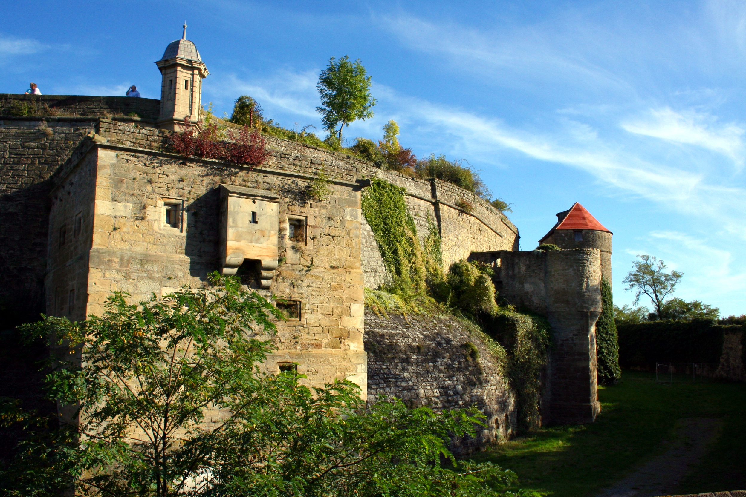 Towers of the fortress Hohenasperg, in the middle the small powder tower, Asperg, Baden-Wurttemberg, Germany